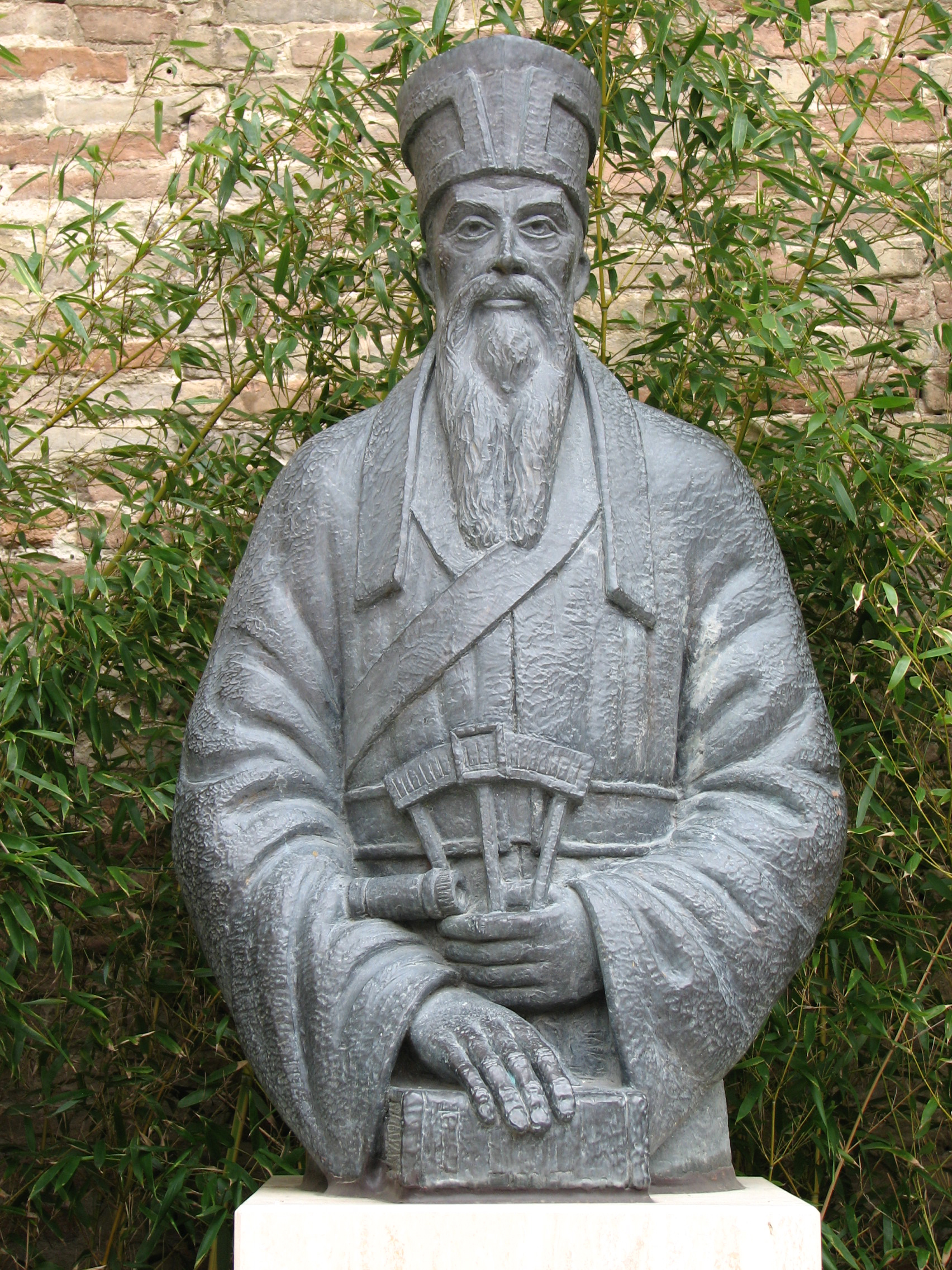 Monument of Fr Matteo Ricci in Macerata, Italy